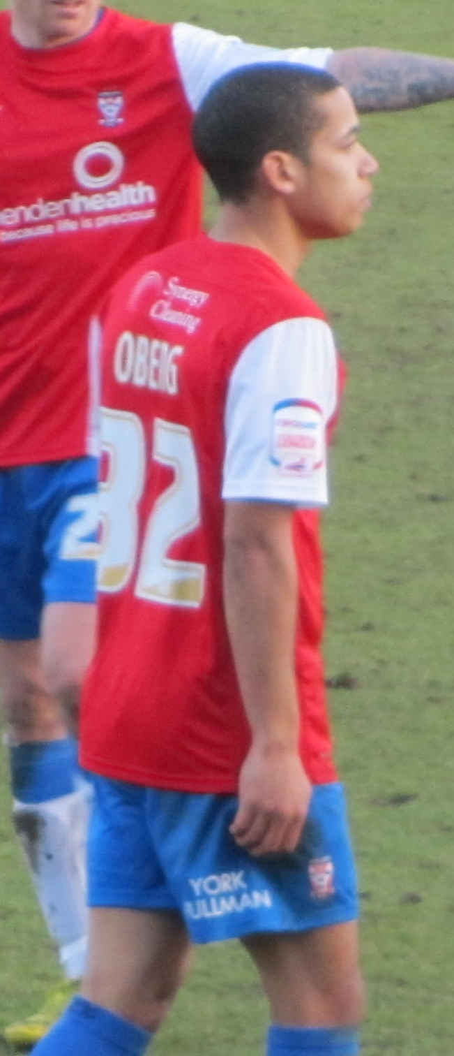 Curtis Obeng playing for York City against Barnet at Bootham Crescent, York on 16 February 2013